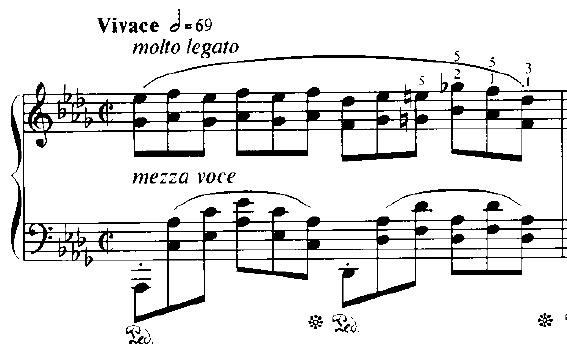 Excerpt form the beginning of the Étude Op. 25 No. 8 by Fryderyk Chopin.